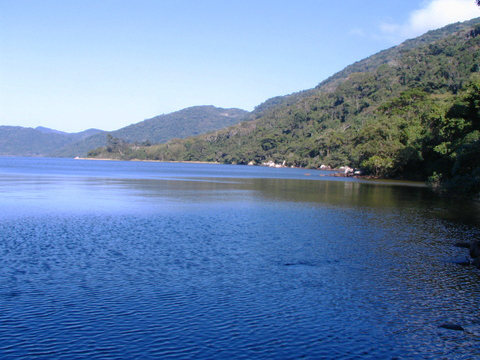 Peri lagoon, close to Florianópolis, Santa Catarina, Brazil